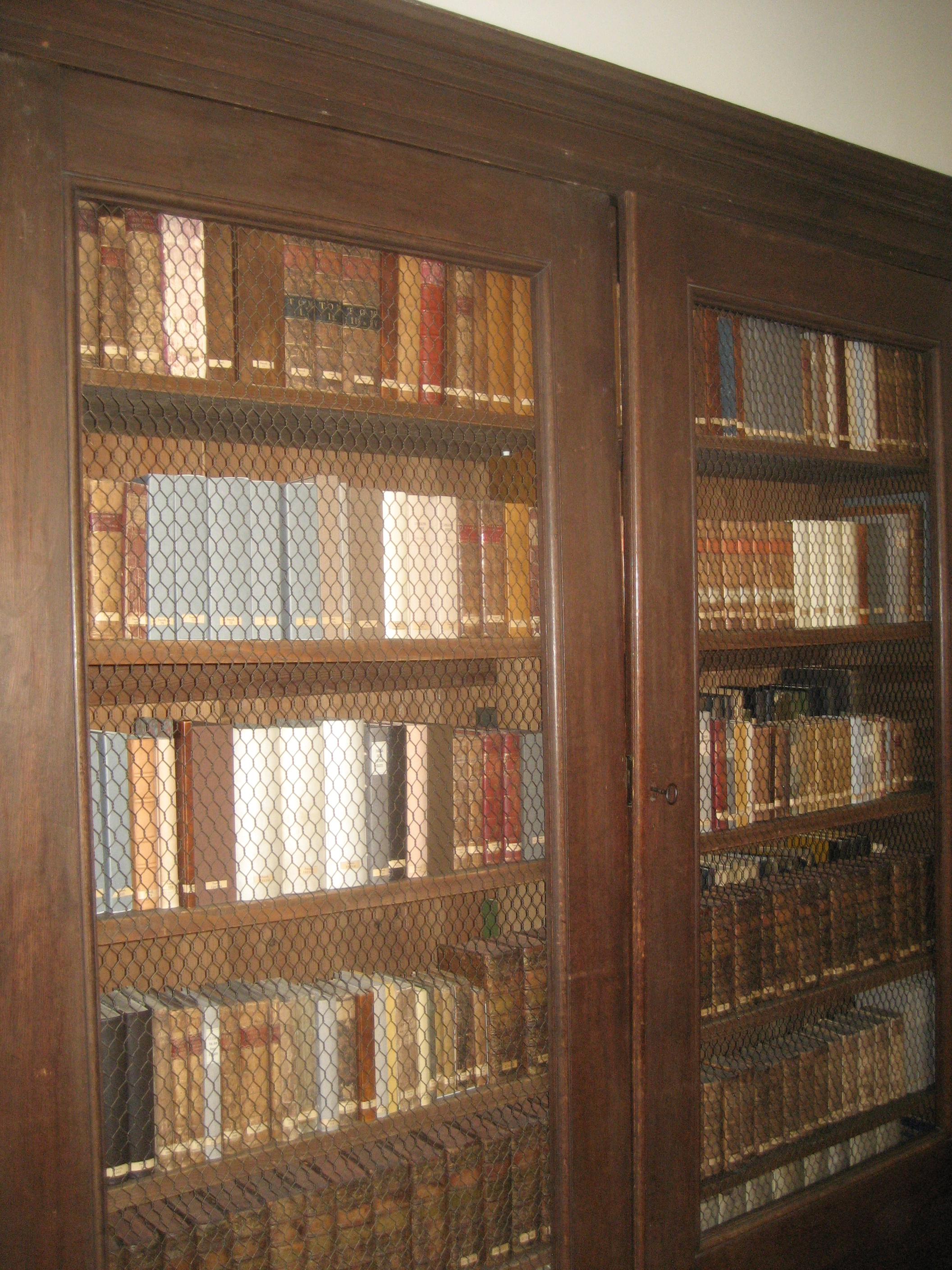 Swedenborg Collection at Bibliotheca Thysiana, Leiden (the Netherlands)